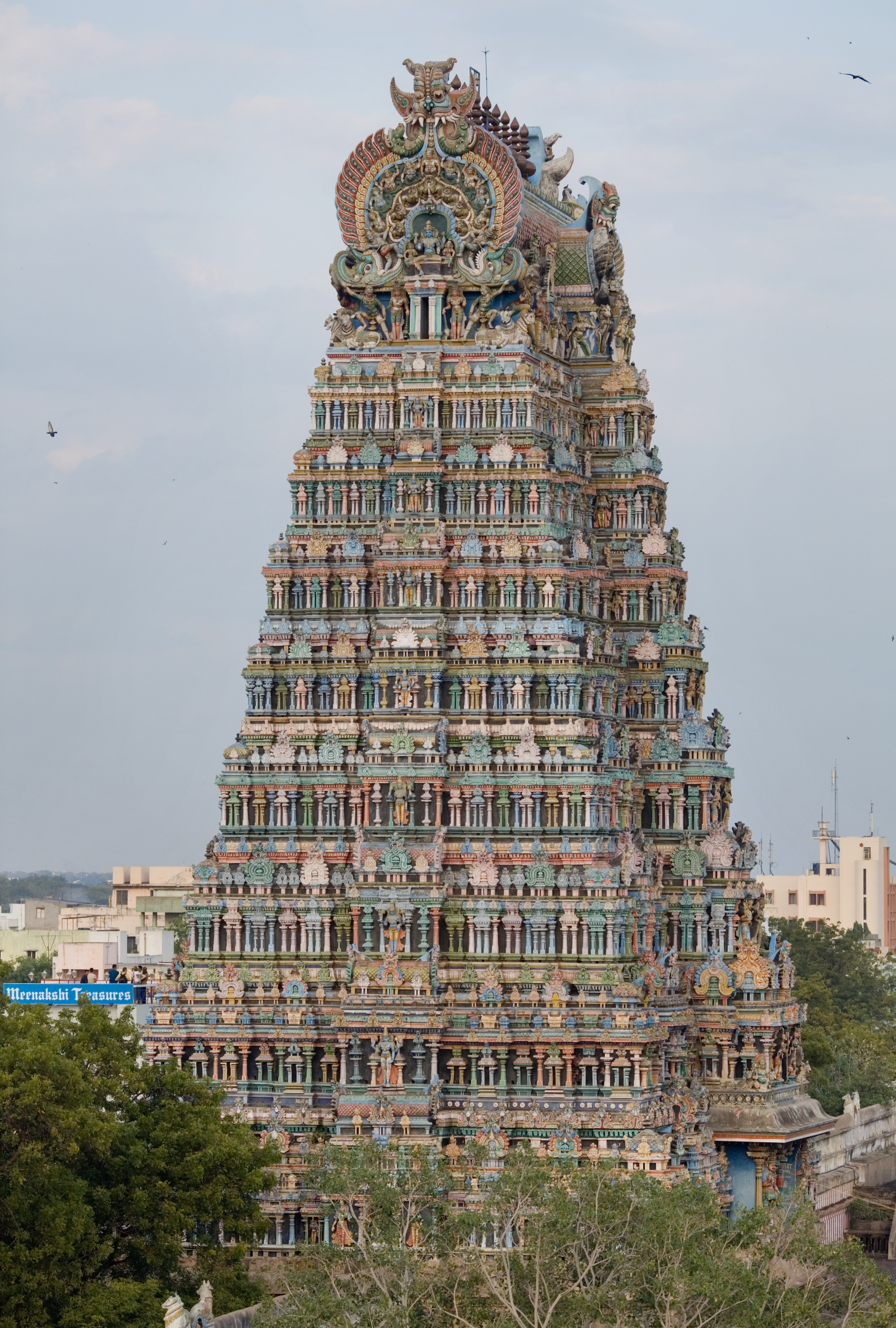 Madurai temple, India